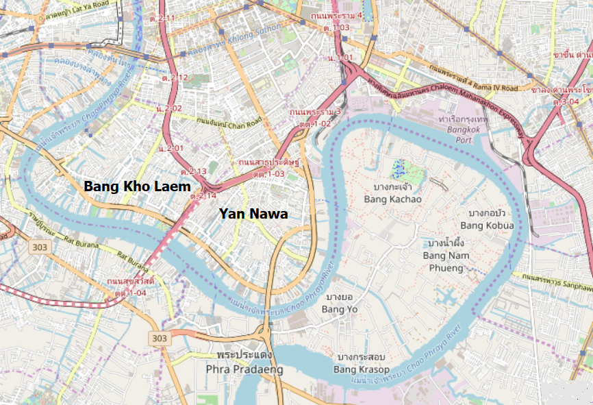 Bangkok Port (anno 2020) with the unused districts of Yan Nawa and Bang Kho Laem. This map may be incomplete, and may contain errors. Don't rely solely on it for navigation.